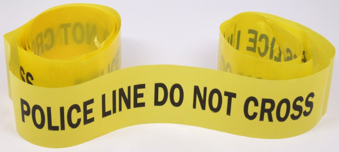 This “Police Line Do Not Cross” tape was picked up at a protest against the construction of a new portion of Highway 55, otherwise named Hiawatha Avenue, in Minneapolis. The protests over the expansion of Highway 55 came to a head on December 20, 1998. After a four month occupation of a group of homes slated for demolition by activists known as the Minnehaha Free State, Governor Arne Carlson authorized a raid on the encampment, known as “Operation Cold Snap,” which involved more than 600 police officers. The protesters were removed and the site was leveled. Protests continued throughout 1999. Featured on the Minnesota Historical Society’s " Collections Up Close blog.